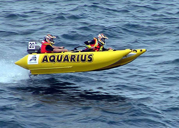 Offshore inflatable racing (Thundercat class) at Ilfracombe, north Devon, England. Taken by Adrian Pingstone in July 2004 and released to the public domain.